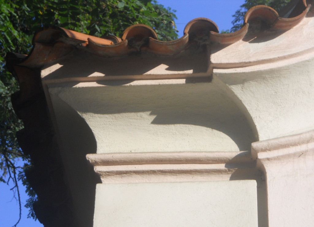 Fabion fries, 18th century (Praha - Košíře, Klamovka)